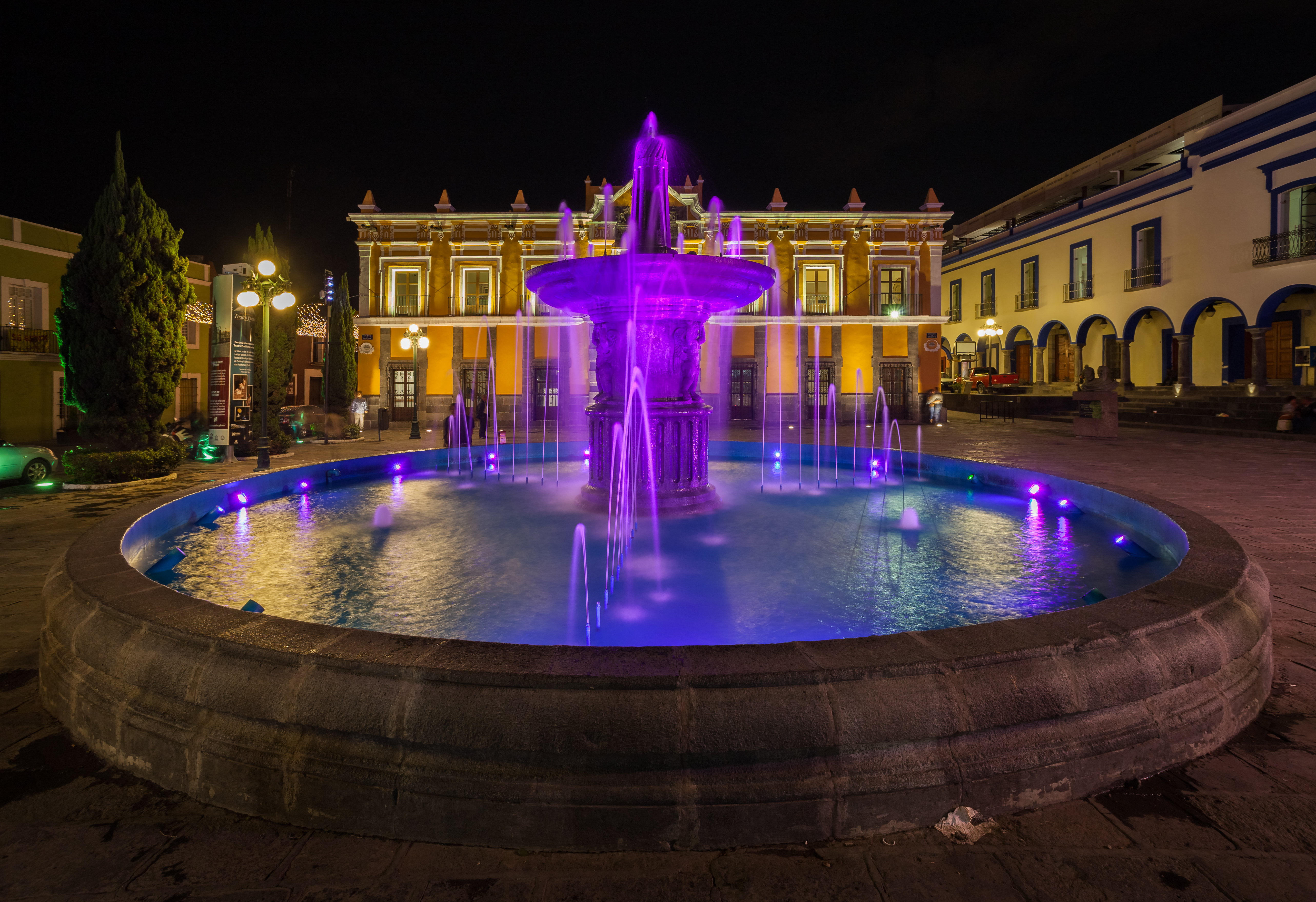 Night view of the illuminated fountain in front of Teatro Principal, Puebla, Mexico.